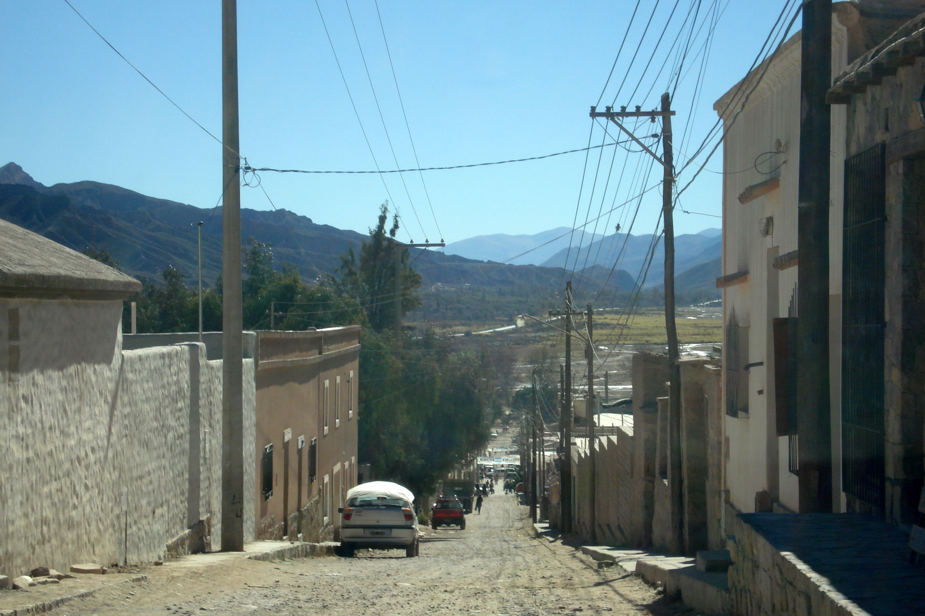 Tilcara: The Bolívar Street between the Ambrosetti Street and the Jujuy Street